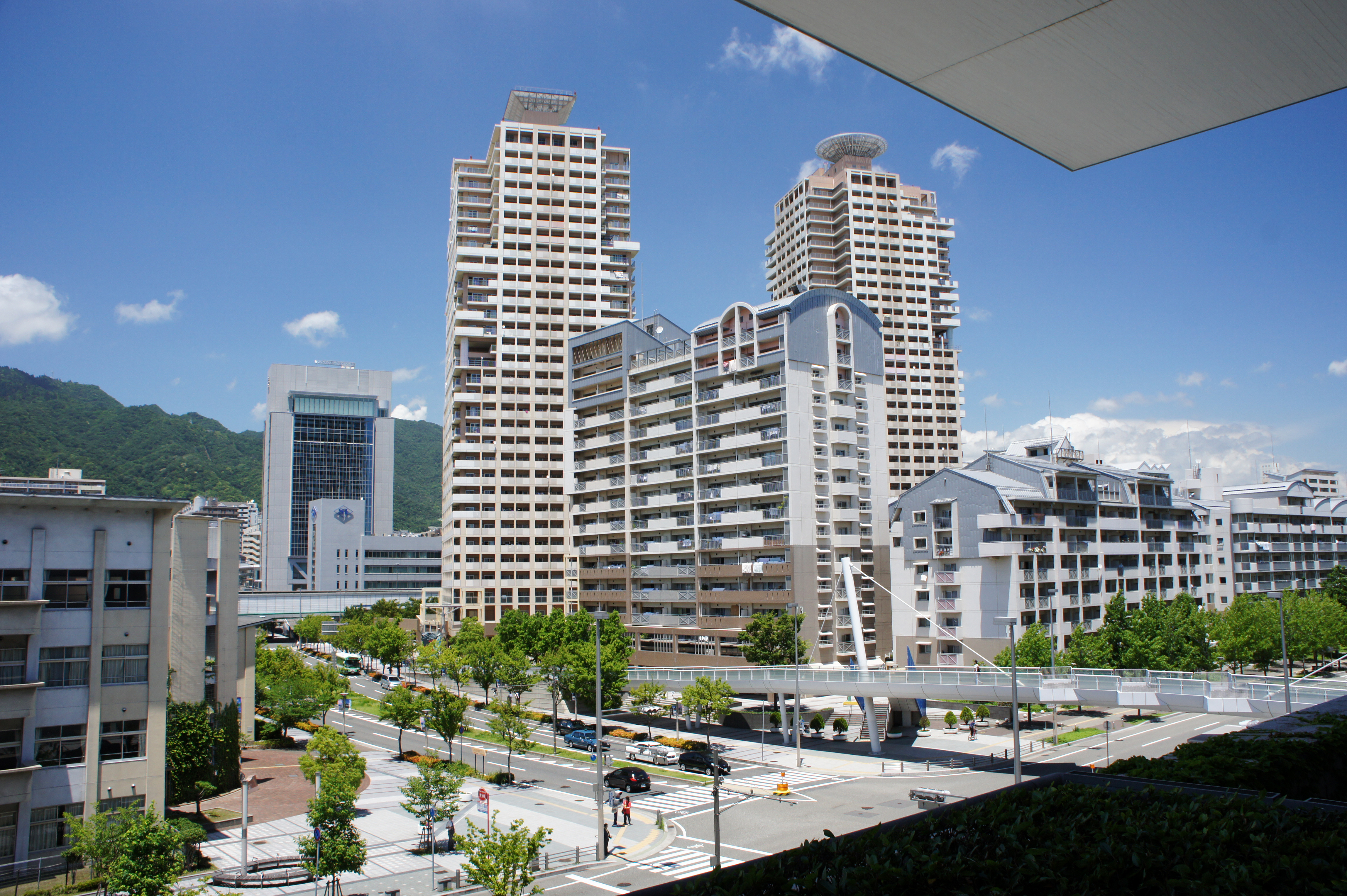 at HAT Kobe in Kobe, Hyogo prefecture, Japan